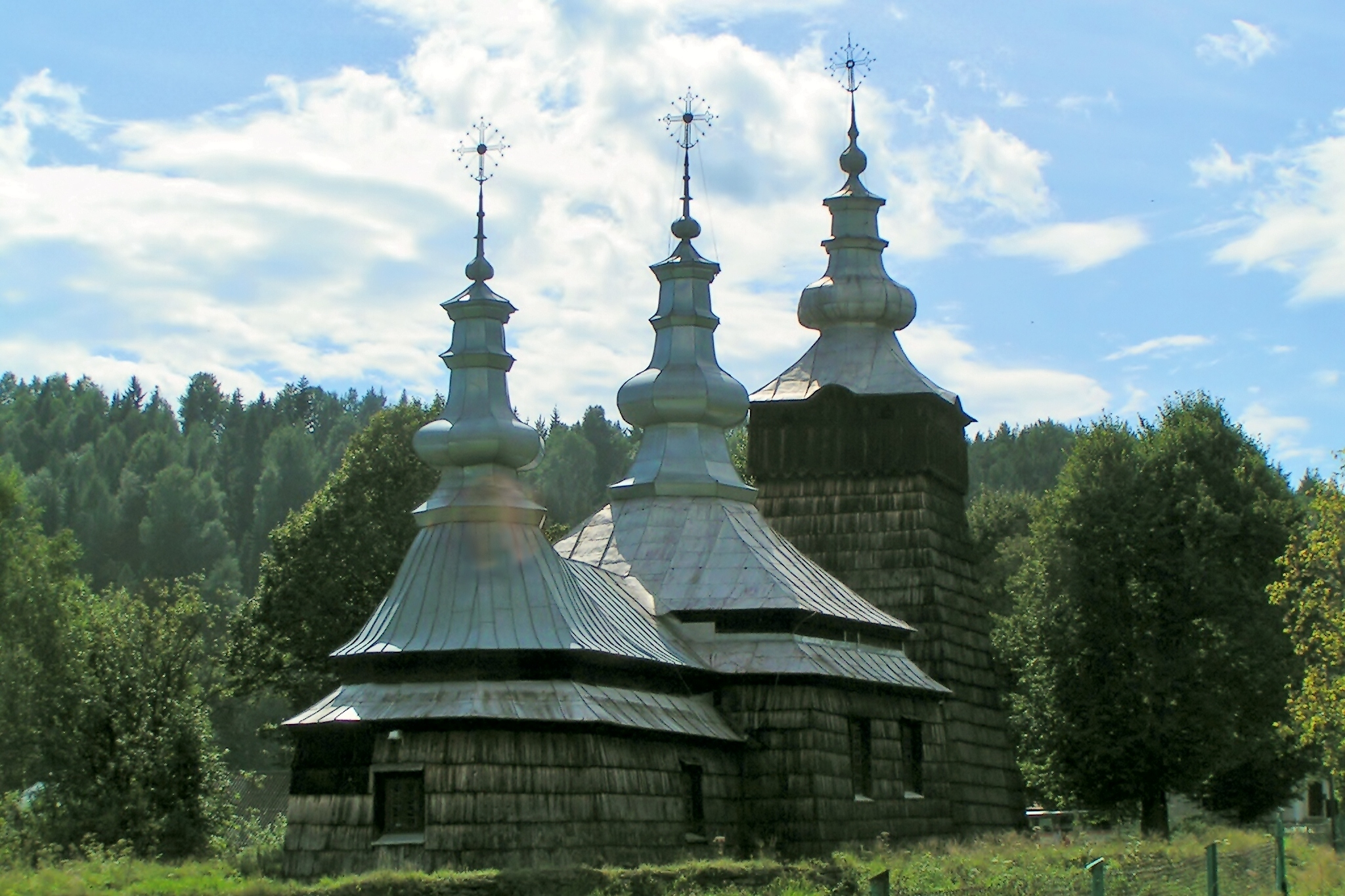 Szczawnik - the former Greek Orthodox Lemka Church of St. Dmitri Sołuński, now Roman Catholic church of St. Demetrius